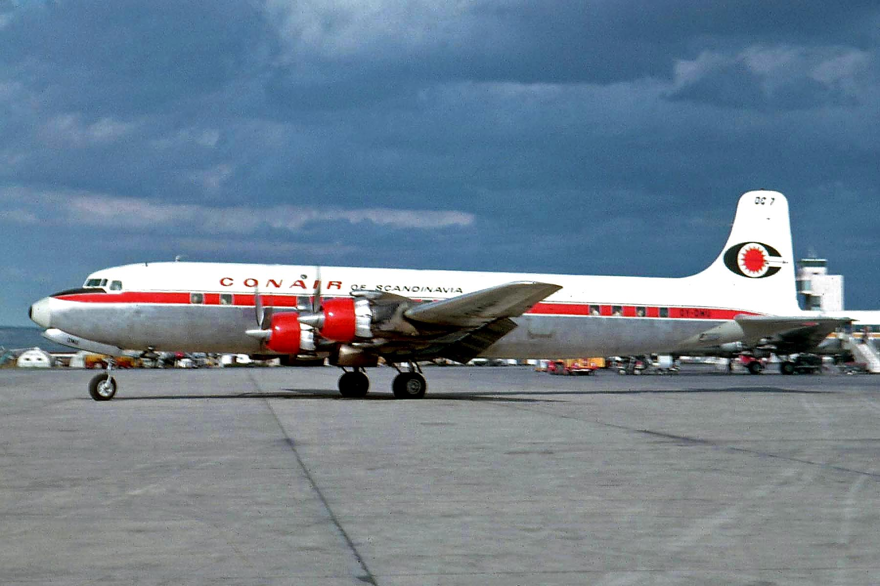 Not the Canadian Conair although it's a similar colour scheme